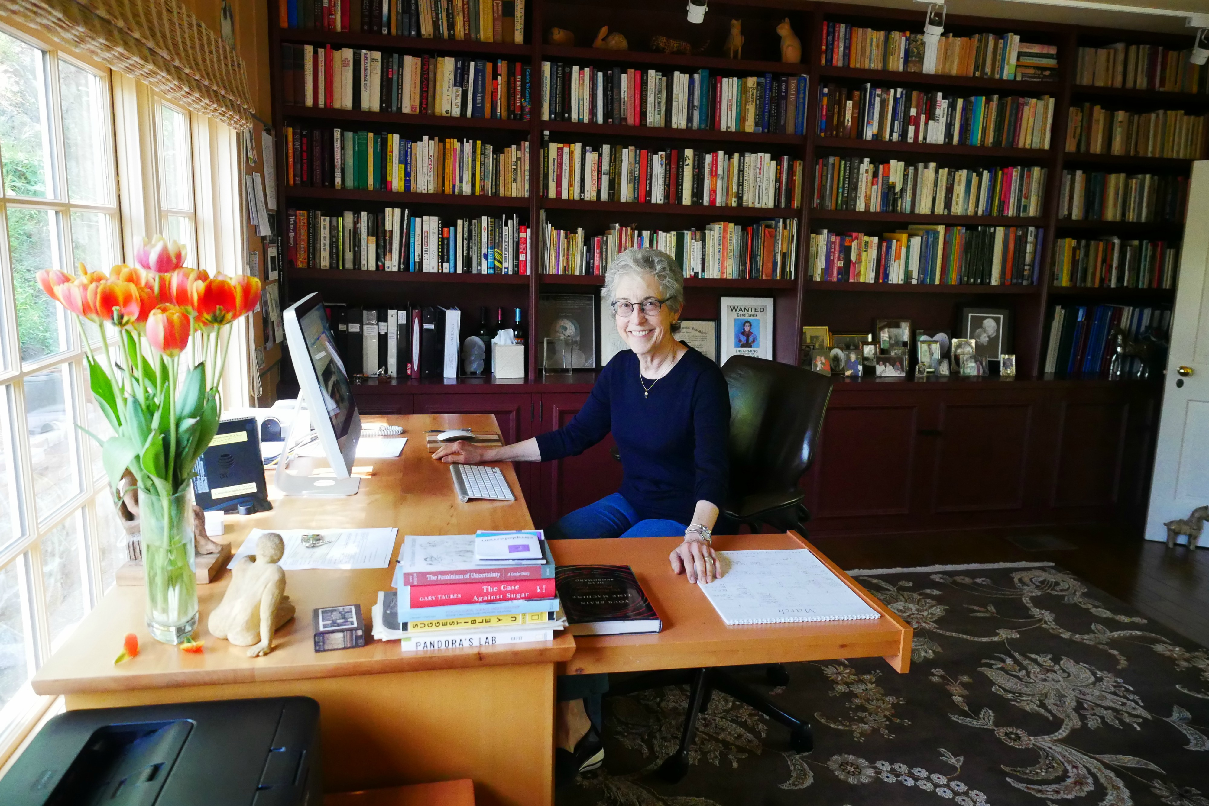 Carol Tavris in office